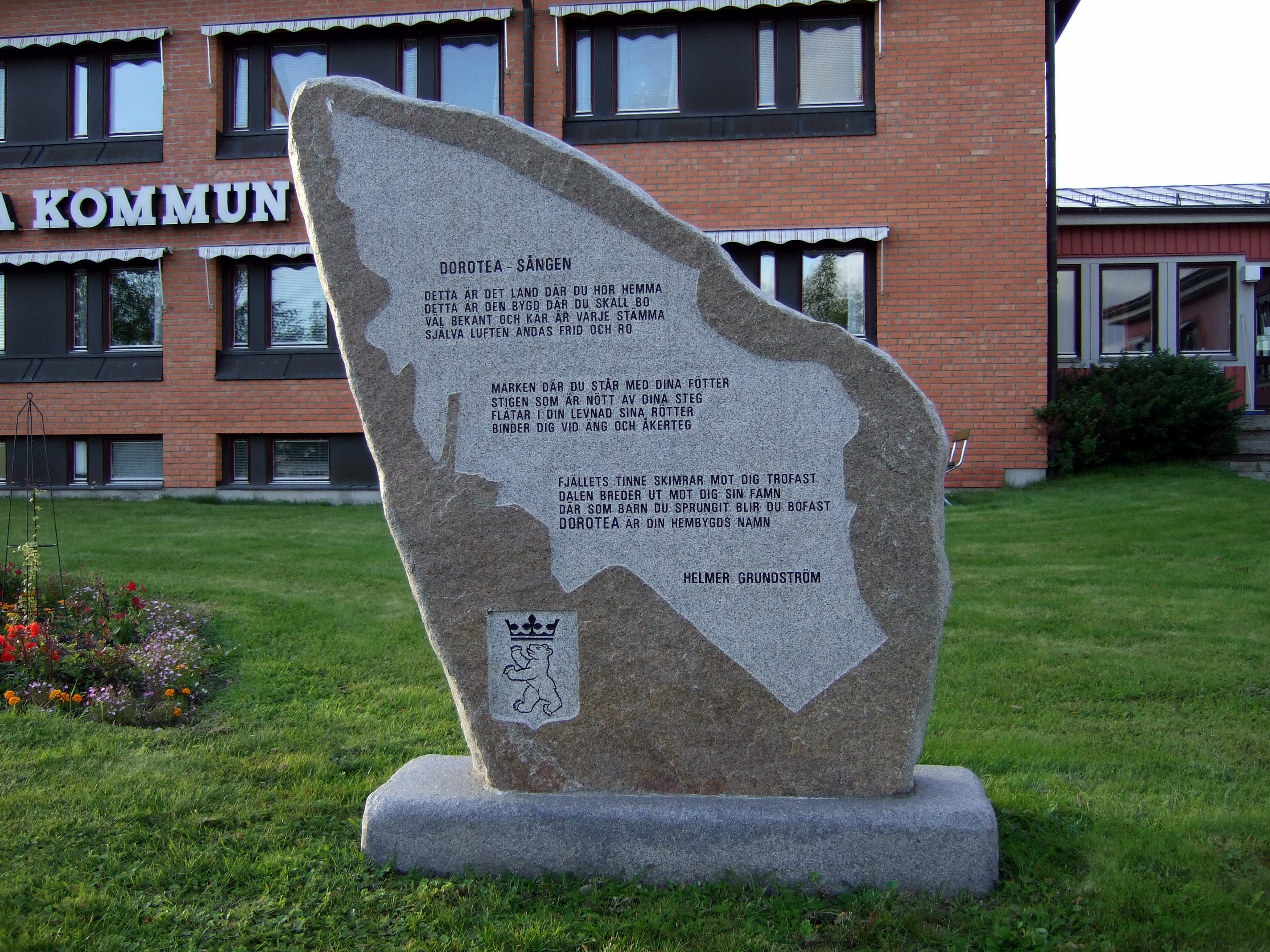 Artwork with Doroteasången (the Dorotea Song) outside Dorotea town hall